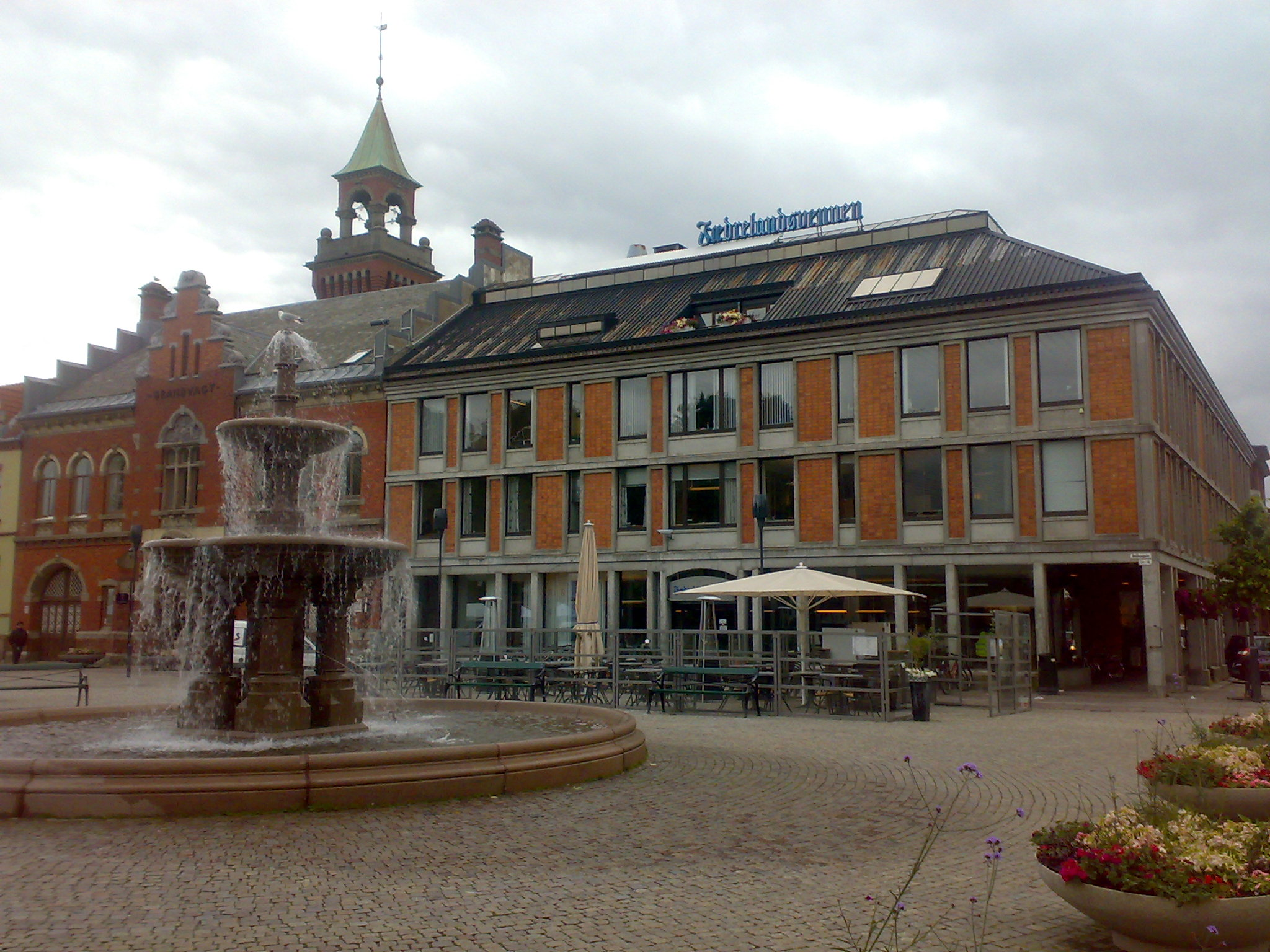 Faedrelandsvennen newspaper offices, Kristiansand, Norway